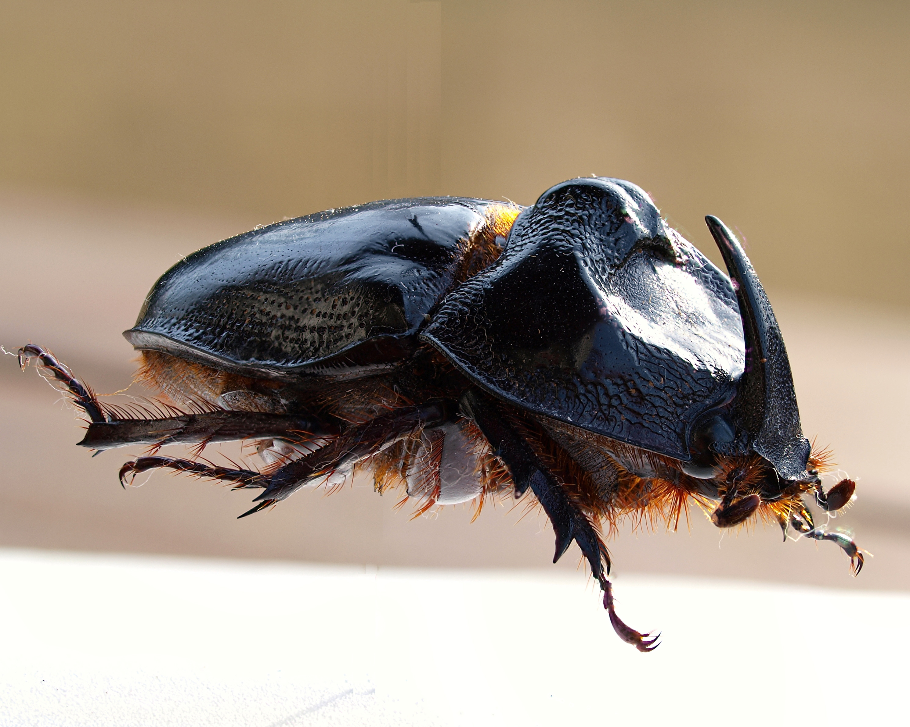 Enema pan, female Runa Simi: Yana waqrasapa tsima kuru mama, china